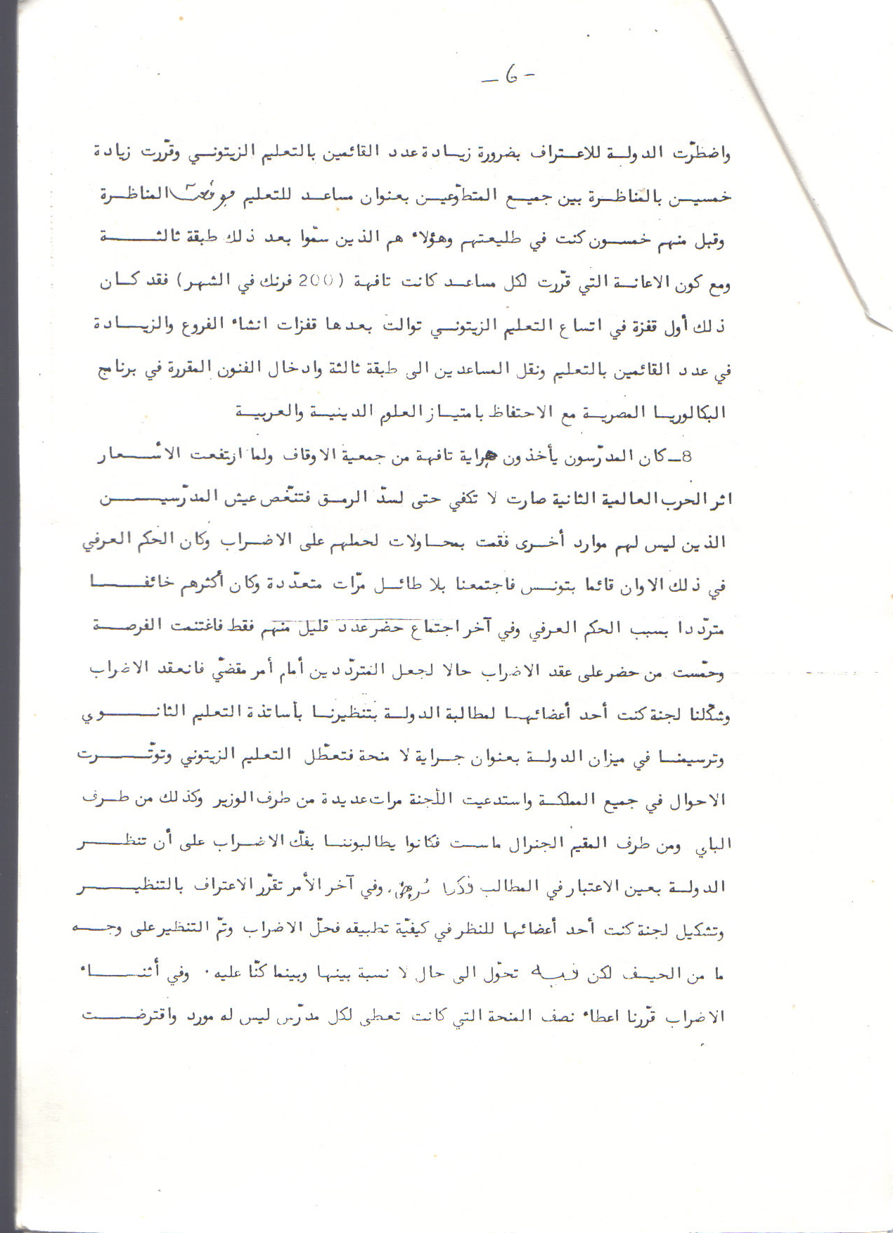 السيرة الذاتية للشيخ الطيب التليلي، ص 6